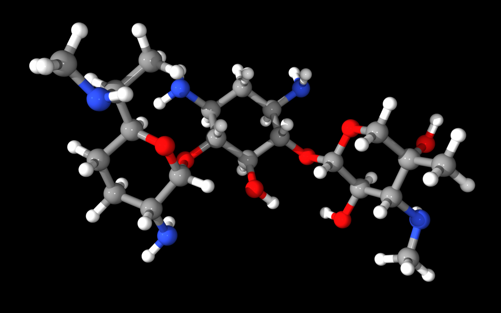 created with jmol+povray+gimp